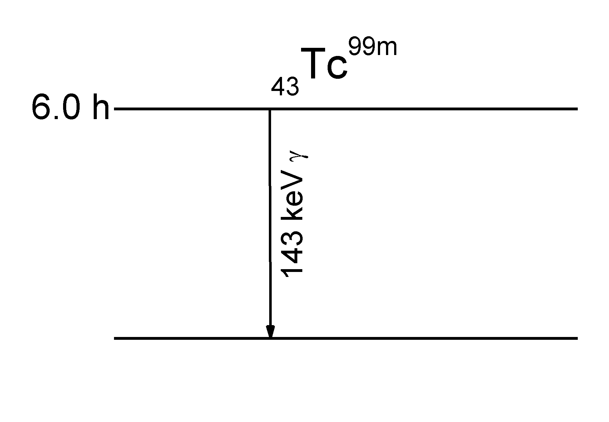 Decay scheme of Technetium 99m